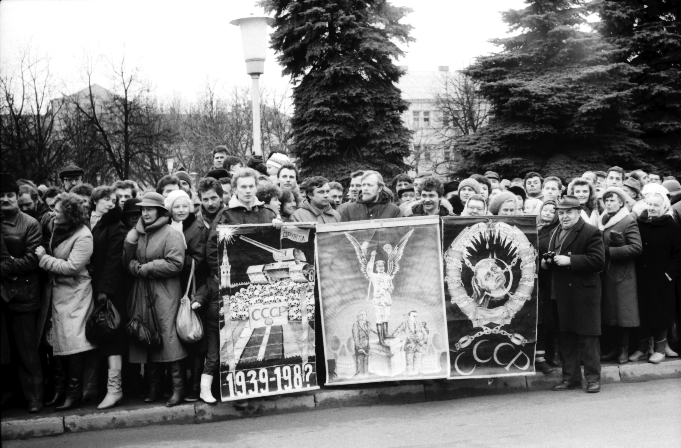 Visit of Mikhail Gorbachew 1990-01-12 in Šiauliai, Lithuania